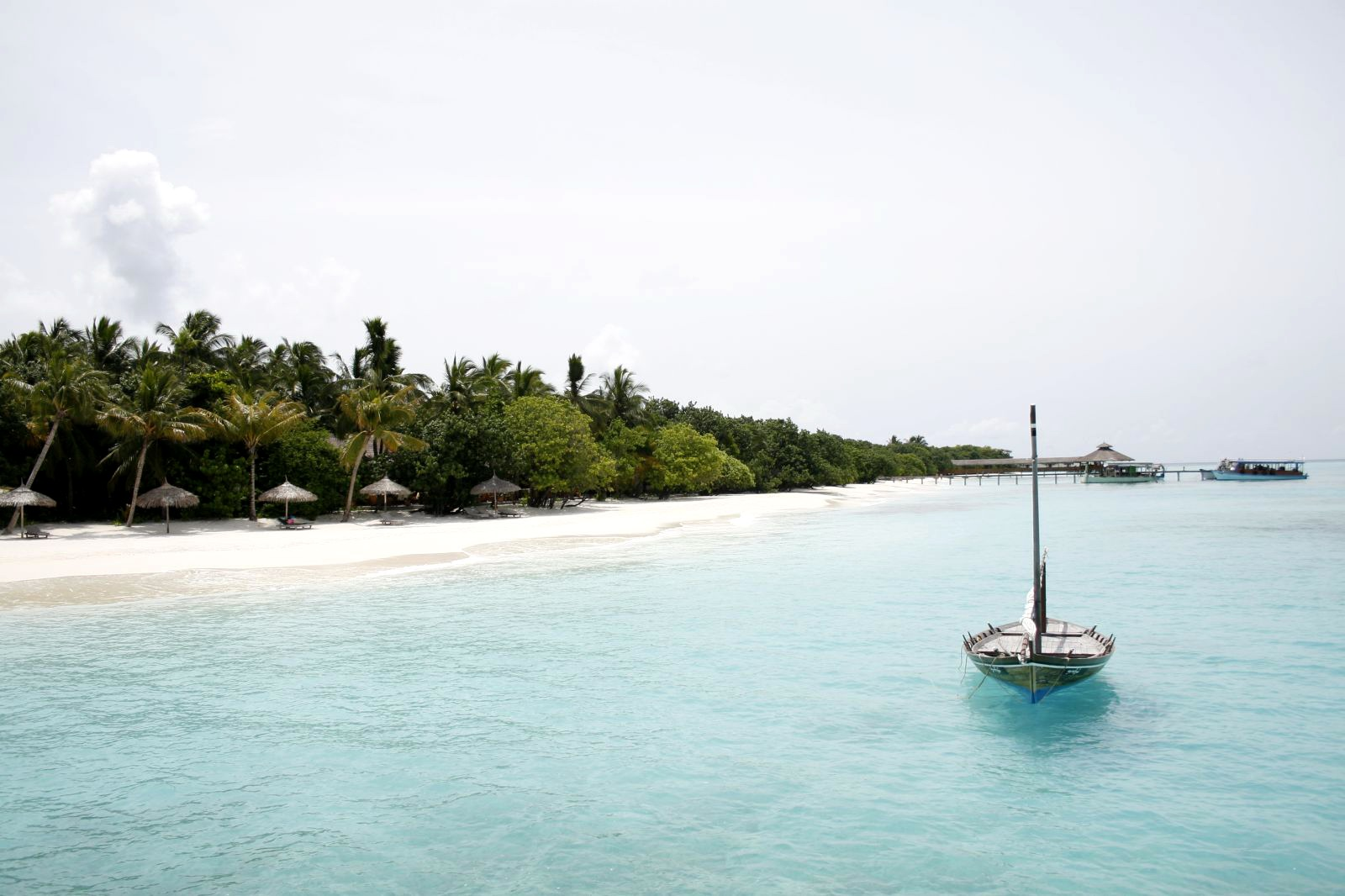 Baa Atoll. Reethi Beach Resort (RBR) on South Side